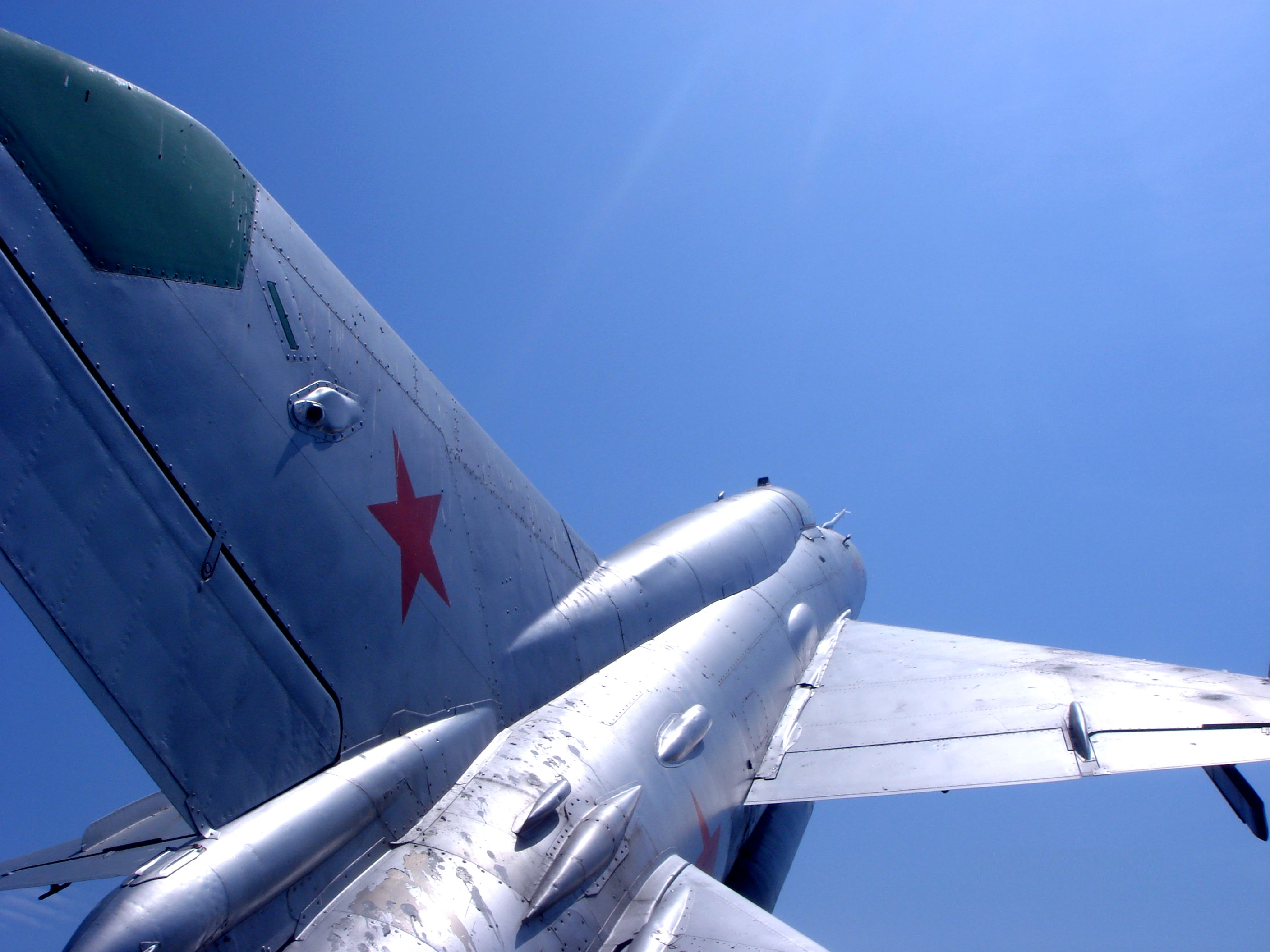 Mig 21